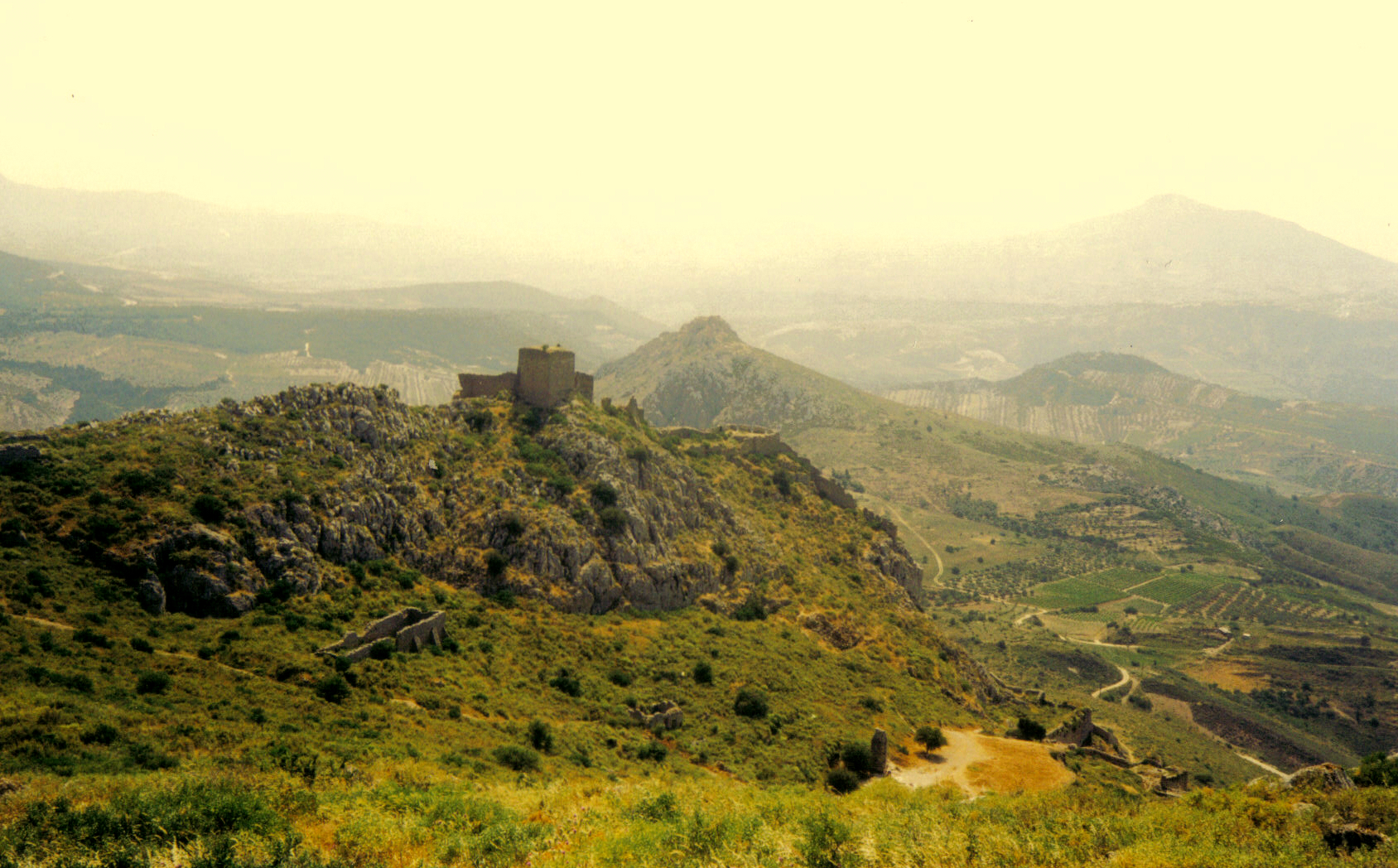 The frankish tower on the western Summit of the fortification of Acrocorinth in Greece.